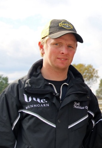 Mattias Djuse 2016-09-22